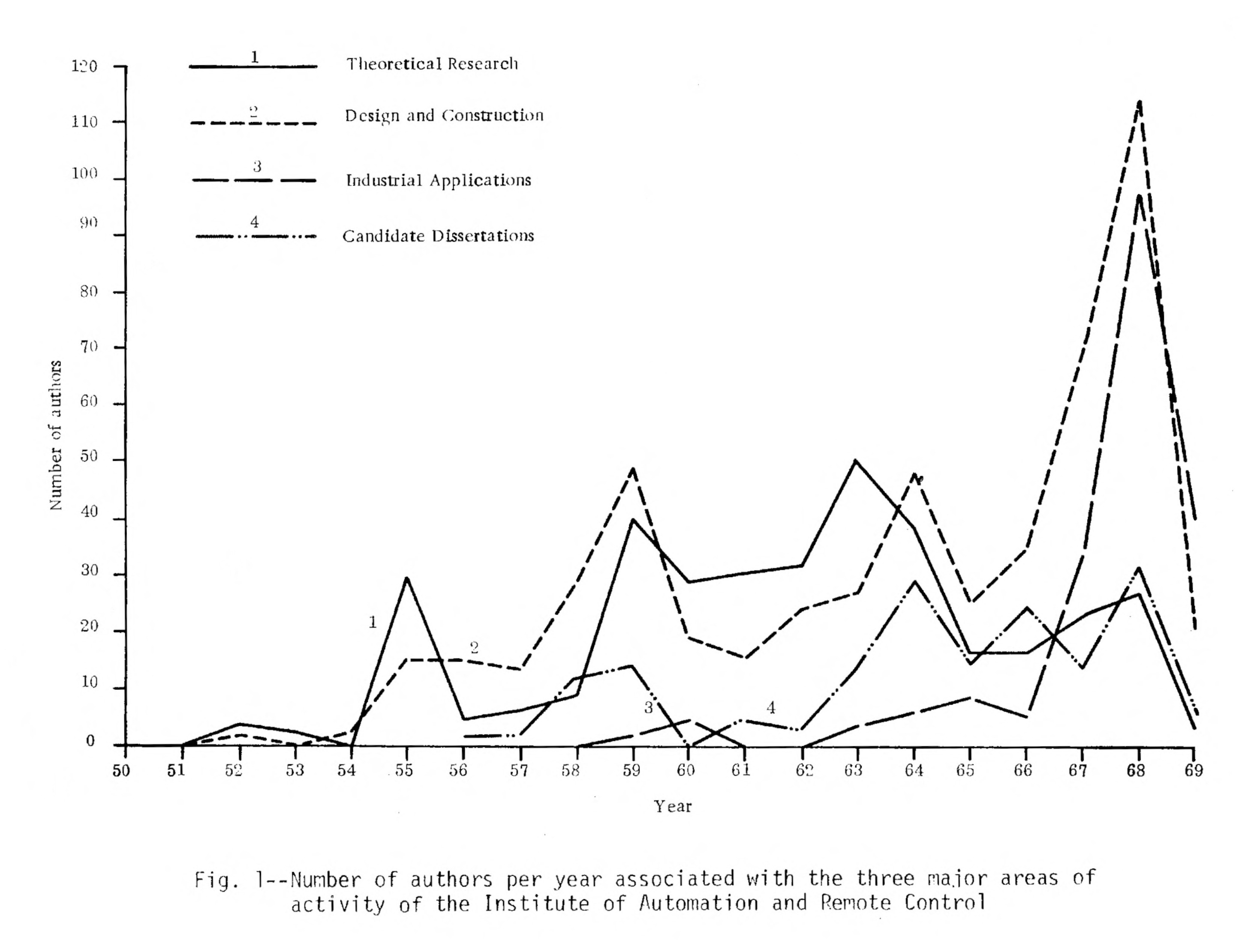 Graph of the number of authors, by year, in the main branches of the Institute of Automation and Remote Control. This Institute was closely associated with Cybernetics in the Soviet Union